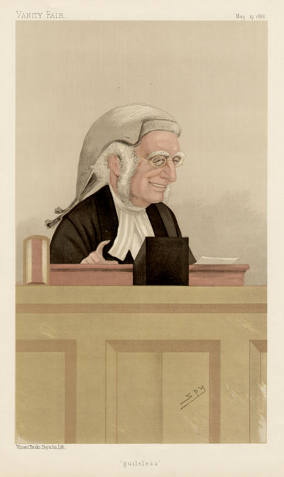 Judges No.22: Caricature of he Rt Hon Lord Justice Henry Cotton. Caption reads: "guileless"